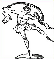 Ballet dancer August Bounonville, satirical drawin in the paper Corsaren, 1846